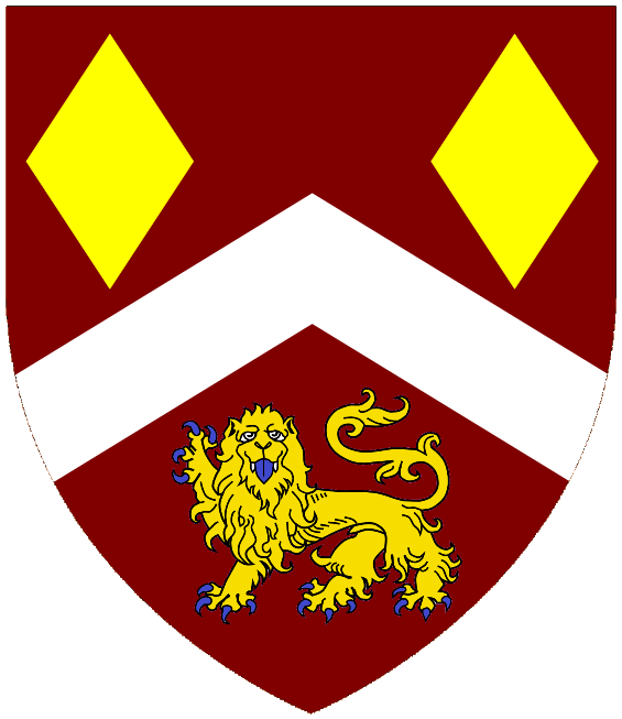 Shield of arms of the town and civil parish of Royal Wootton Bassett, Wiltshire